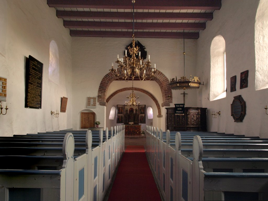 Morsum (Sylt), Slesvic-Holstein (Germany): church, interior, photo 2008